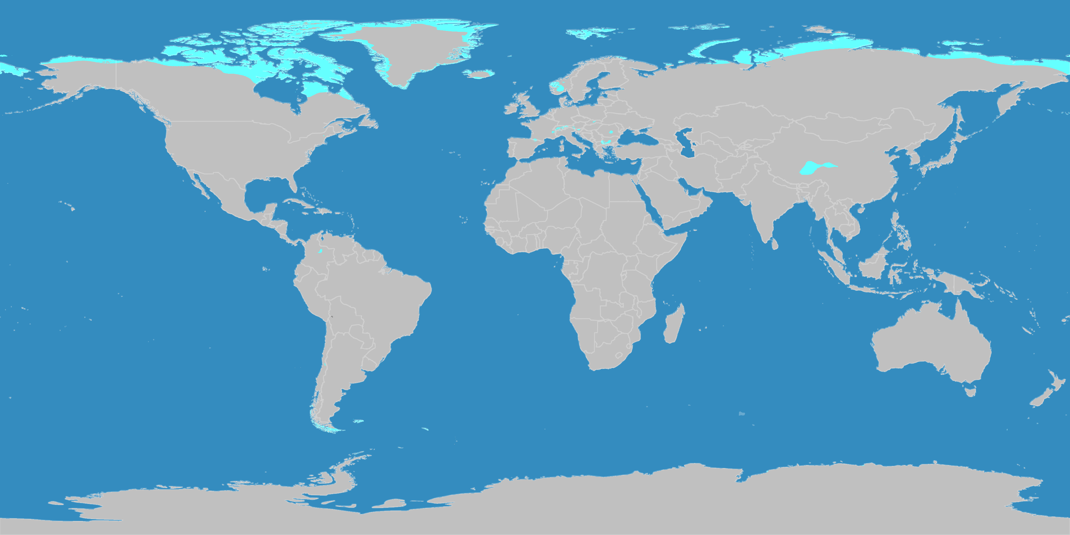 This map shows the Earth zones with a polar tundra climate.